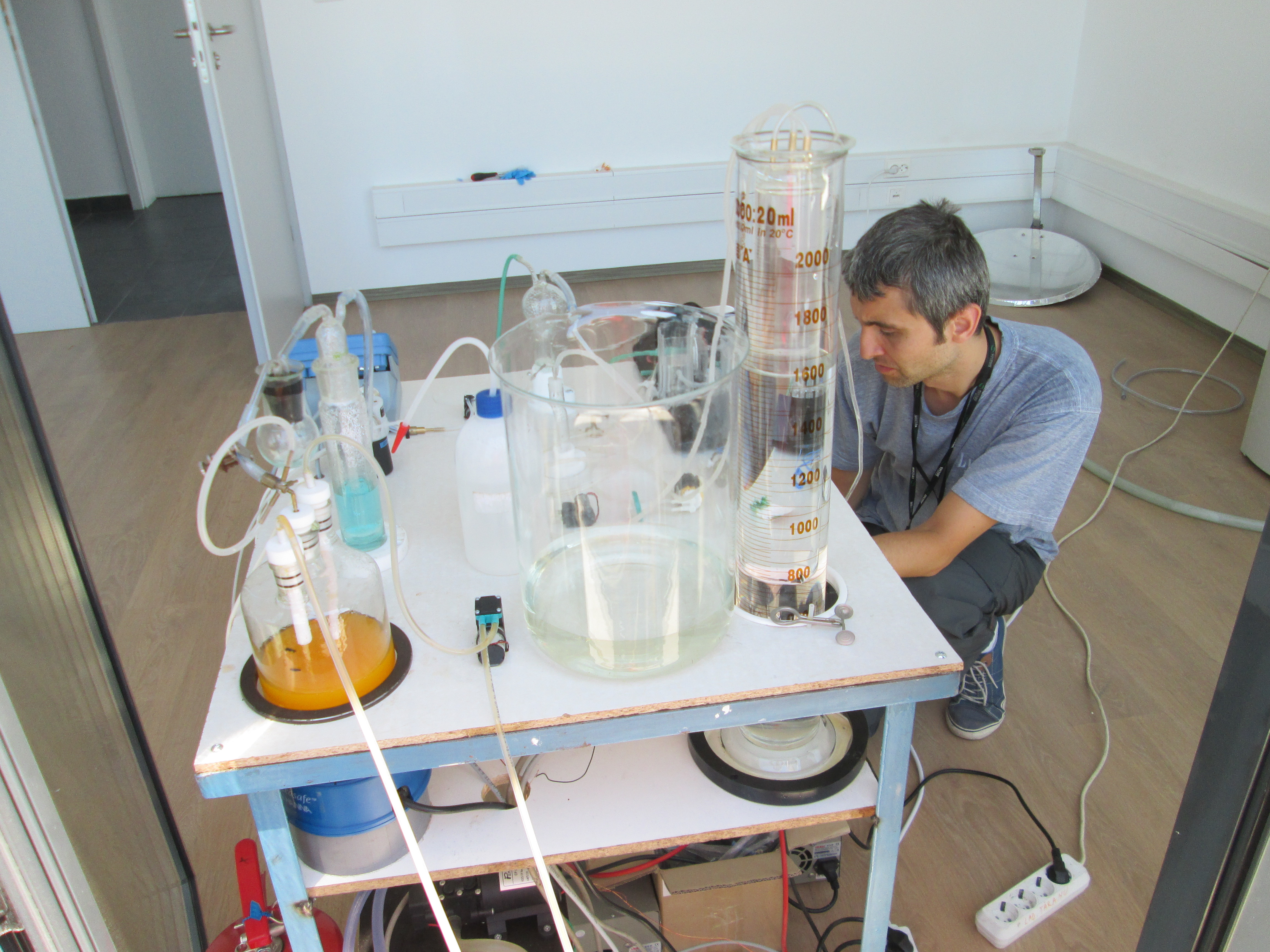 LERF researcher (Radu Banica) starting a photocatalysis installation (Timisoara, Romania)